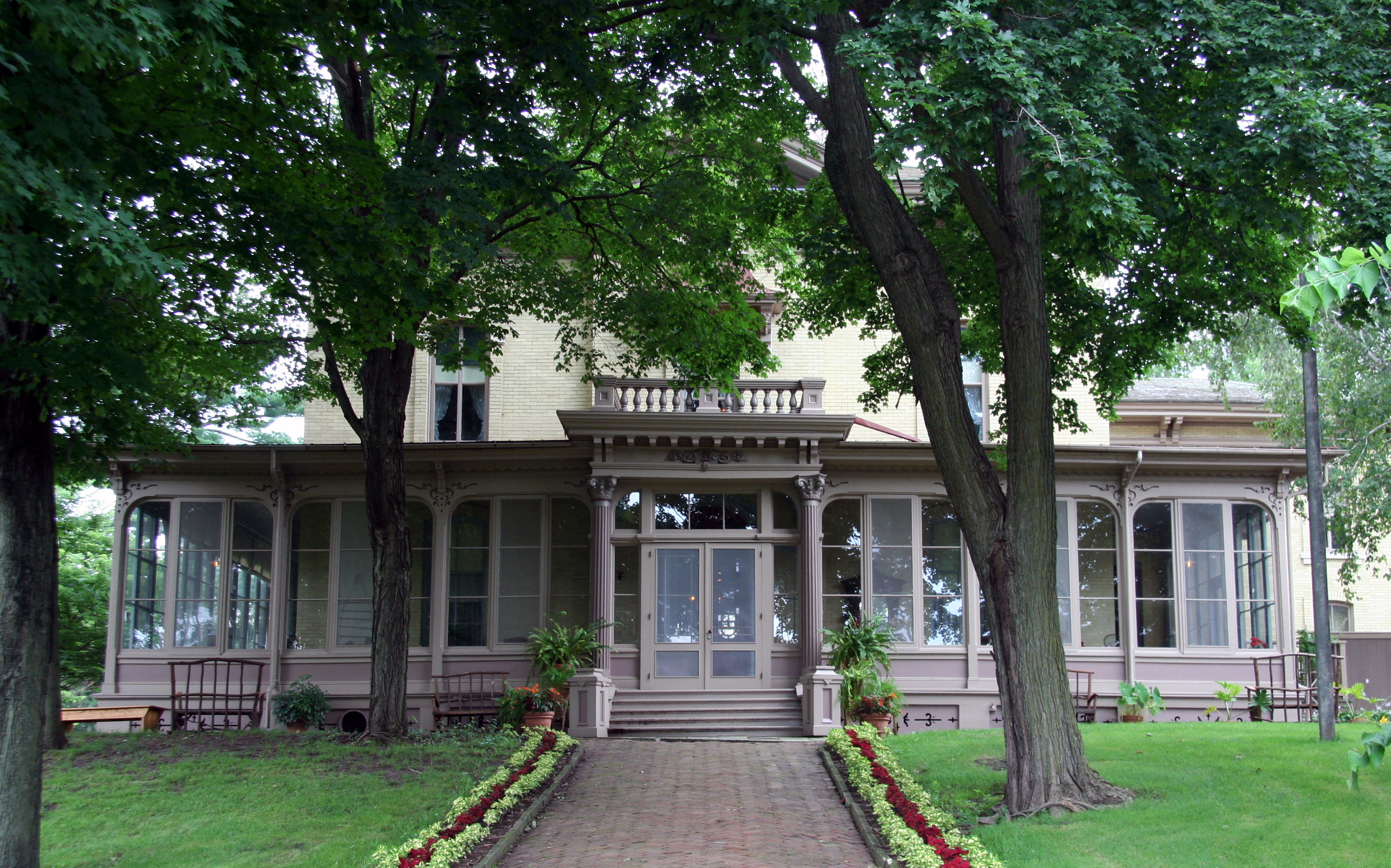 The main entrance on the west side of the Villa Louis Mansion on Saint Feriole Island in Prairie du Chien, Wisconsin